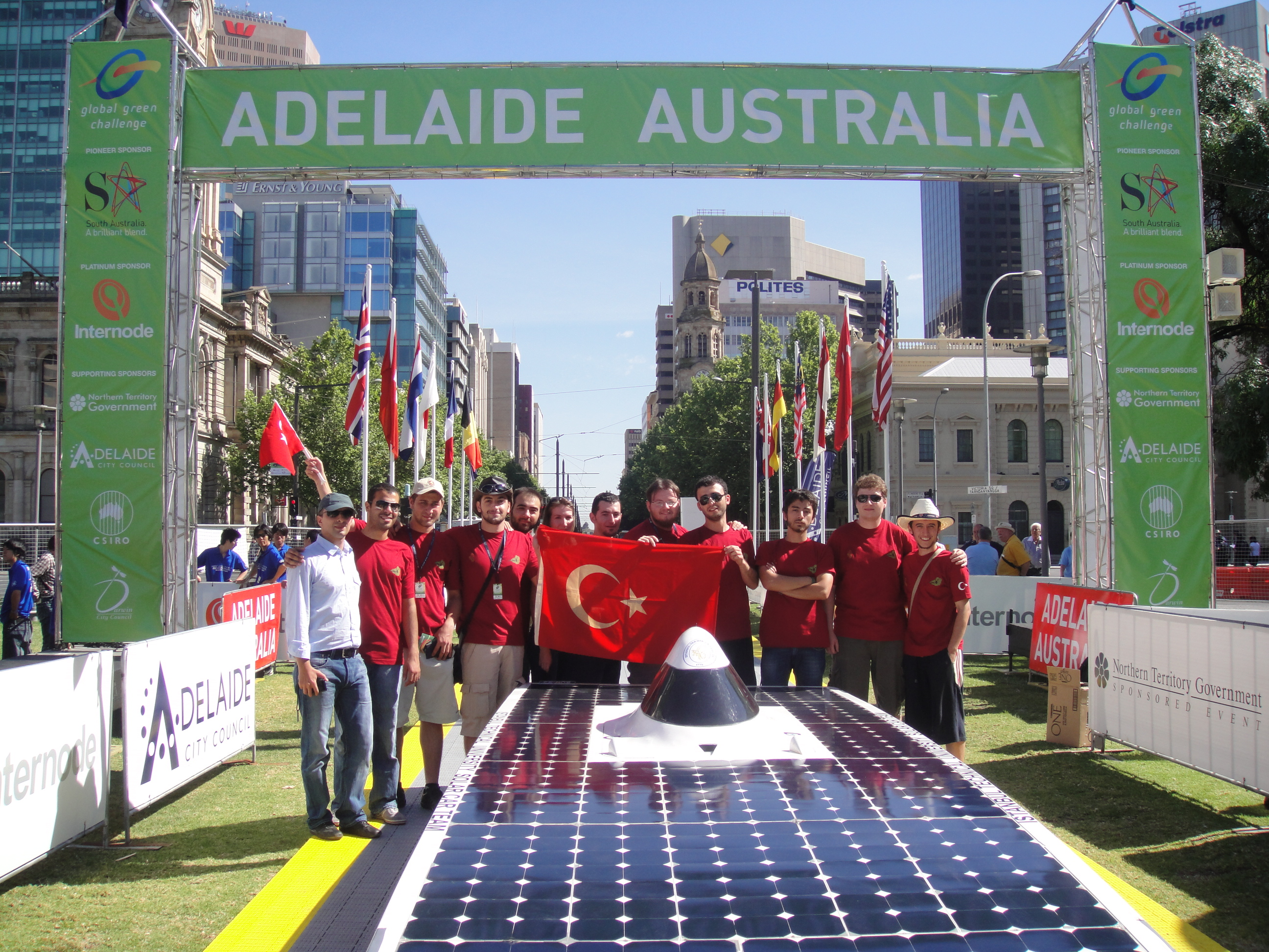 avusturalya